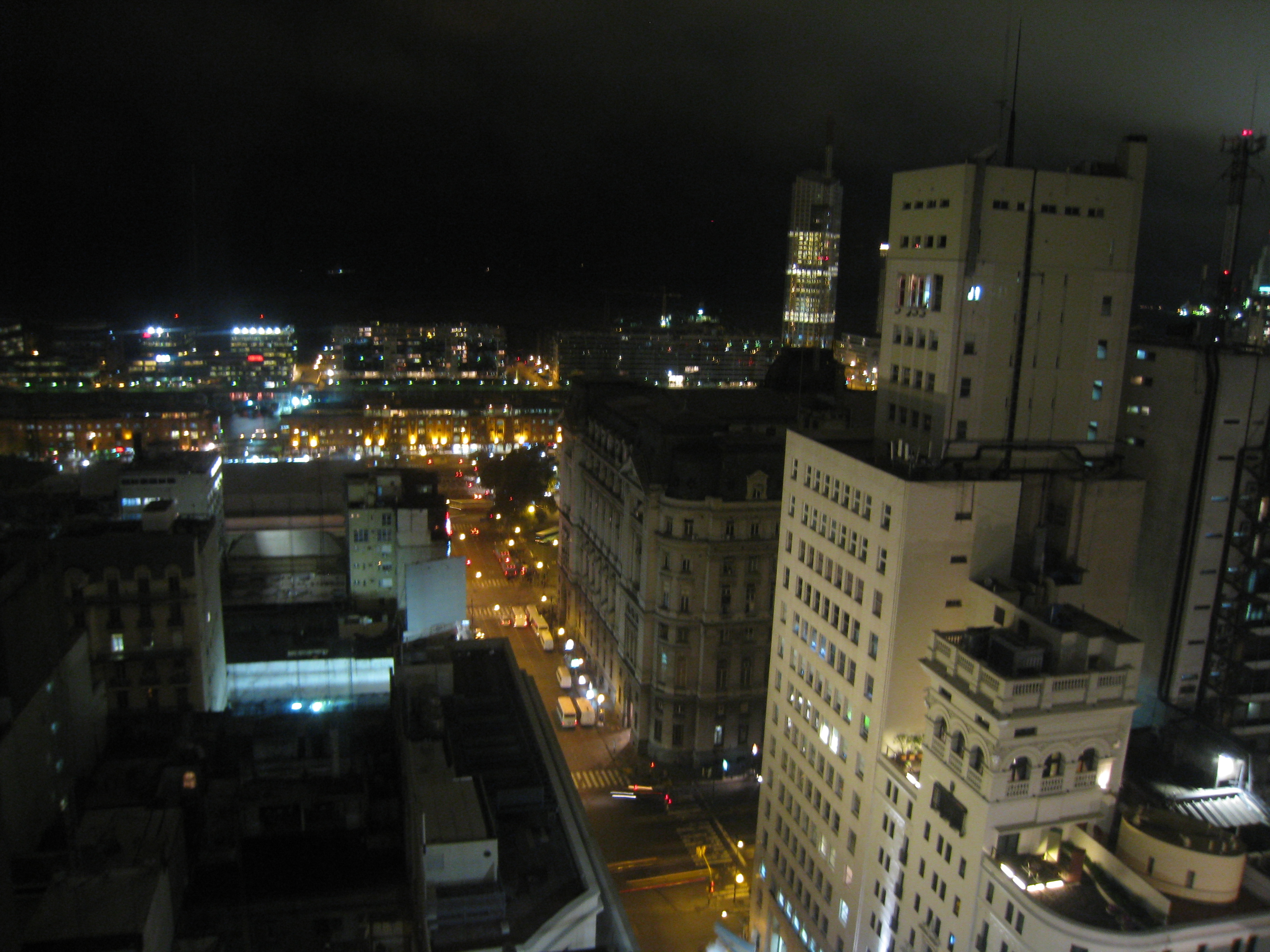 Eastern end of Corrientes Avenue, Buenos Aires.